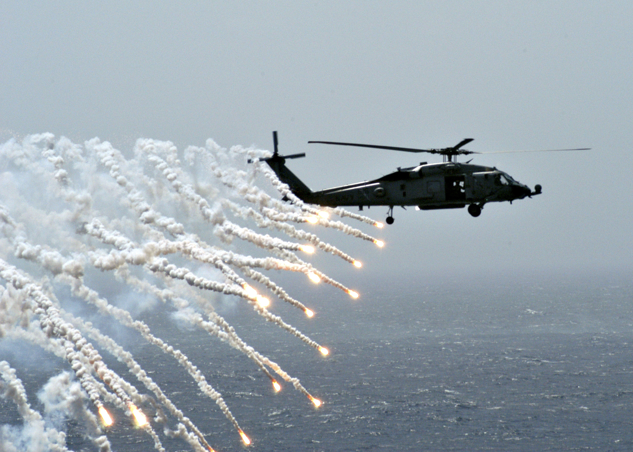 Atlantic Ocean (July 12, 2004) - An SH-60 Seahawk helicopter assigned to the "Dragonslayers" of Helicopter Combat Support Squadron Eleven (HS-11) shoots flares at an air power demonstration during Operation Majestic Eagle aboard USS Enterprise (CVN 65). Majestic Eagle is a multinational exercise being conducted off the coast of Morocco. The exercise demonstrates the combined force capabilities and quick response times of the participating naval, air, undersea and surface warfare groups. Countries involved in the NATO led exercise include the United Kingdom, Morocco, France, Italy, Portugal, Spain, and Turkey. Truman's participation in Majestic Eagle is part of her scheduled deployment supporting the Navy's new fleet response plan (FRP) Summer Pulse 2004, the simultaneous deployment of seven carrier strike groups (CSGs), demonstrating the ability of the Navy to provide credible combat across the globe, in five theaters with other U.S., allied, and coalition military forces. U.S. Navy photo by Photographer's Mate 3rd Class William Howell (RELEASED) For more information go to